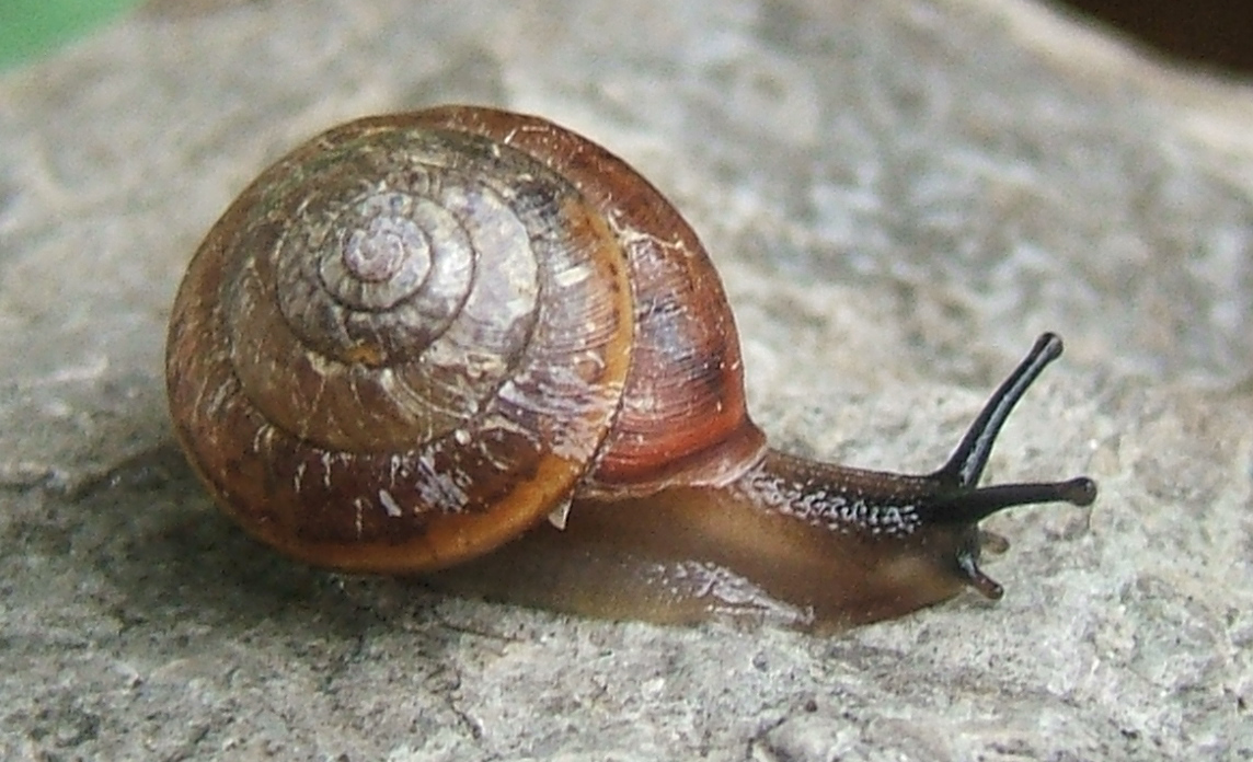 Photo of Monachoides incarnatus. Locality: Germany: Bayern, Walchensee, Zwergern peninsula, 850 m. Date: 04-07-2007.